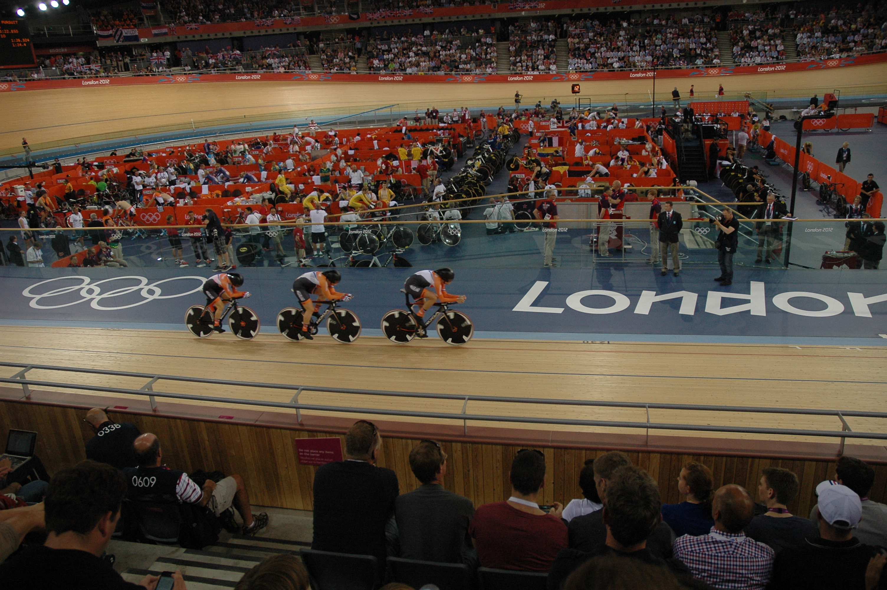 Cycling at the 2012 Summer Olympics – Women's team pursuit. The Dutch team: Ellen van Dijk, Kirsten Wild and Amy Pieters (CT002, 3 August)